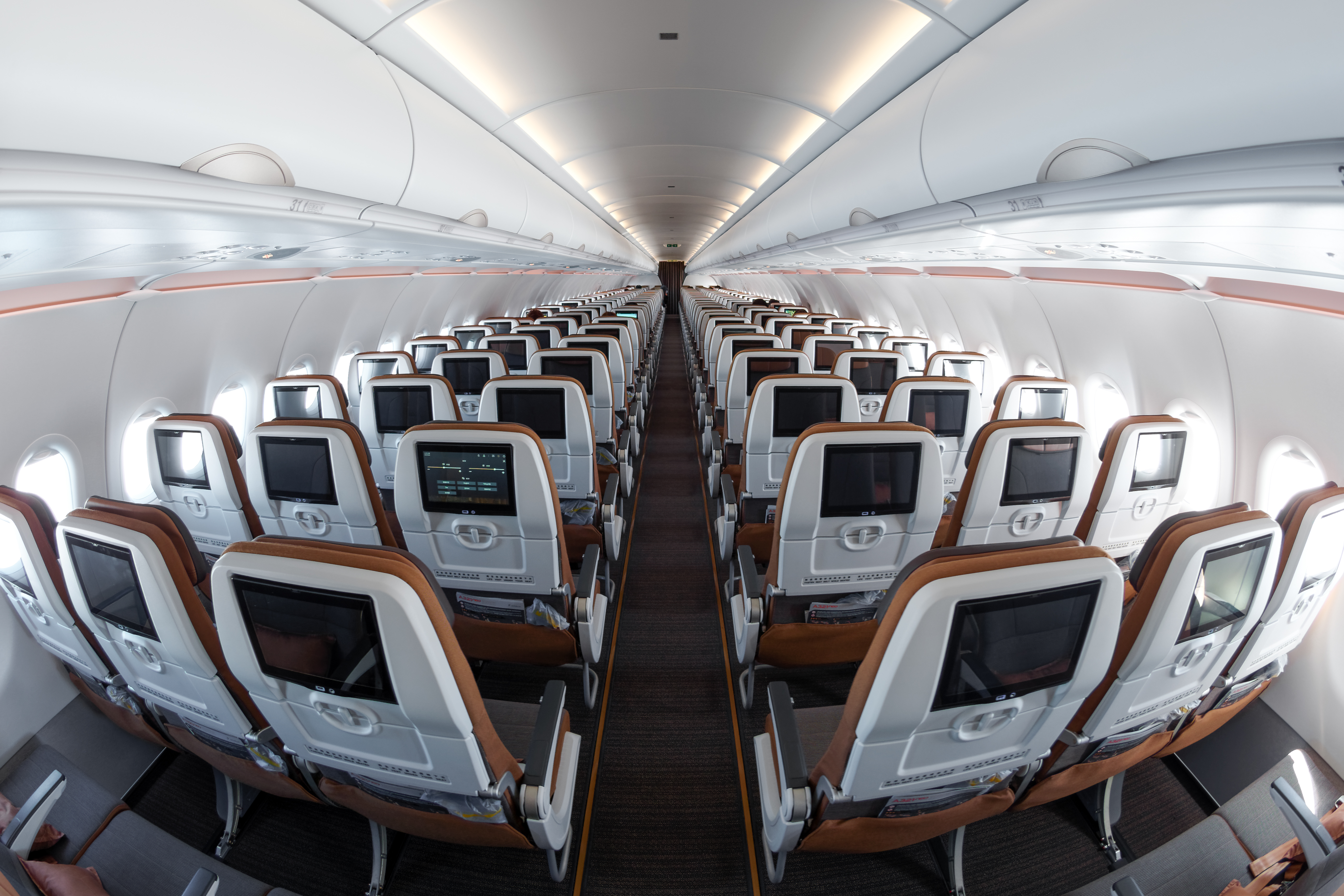 STARLUX Airlines Airbus A321-200NEO B-58203